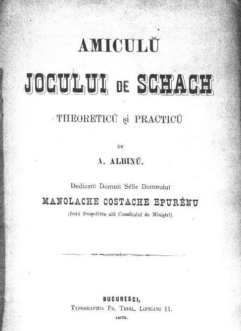 Photo of frontespice of a book by chess master Adolf Albin (1848-1920).